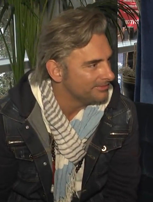 Harry Geithner interview